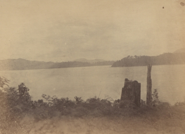 CO 1069-484-112 Description: Malayan Peninsula. Mouth of Dinding river from the hill at Pulo Pangkor. Straits Settlements June 1874. Location: Pulo Pangkor, Malaya Date: June 1874